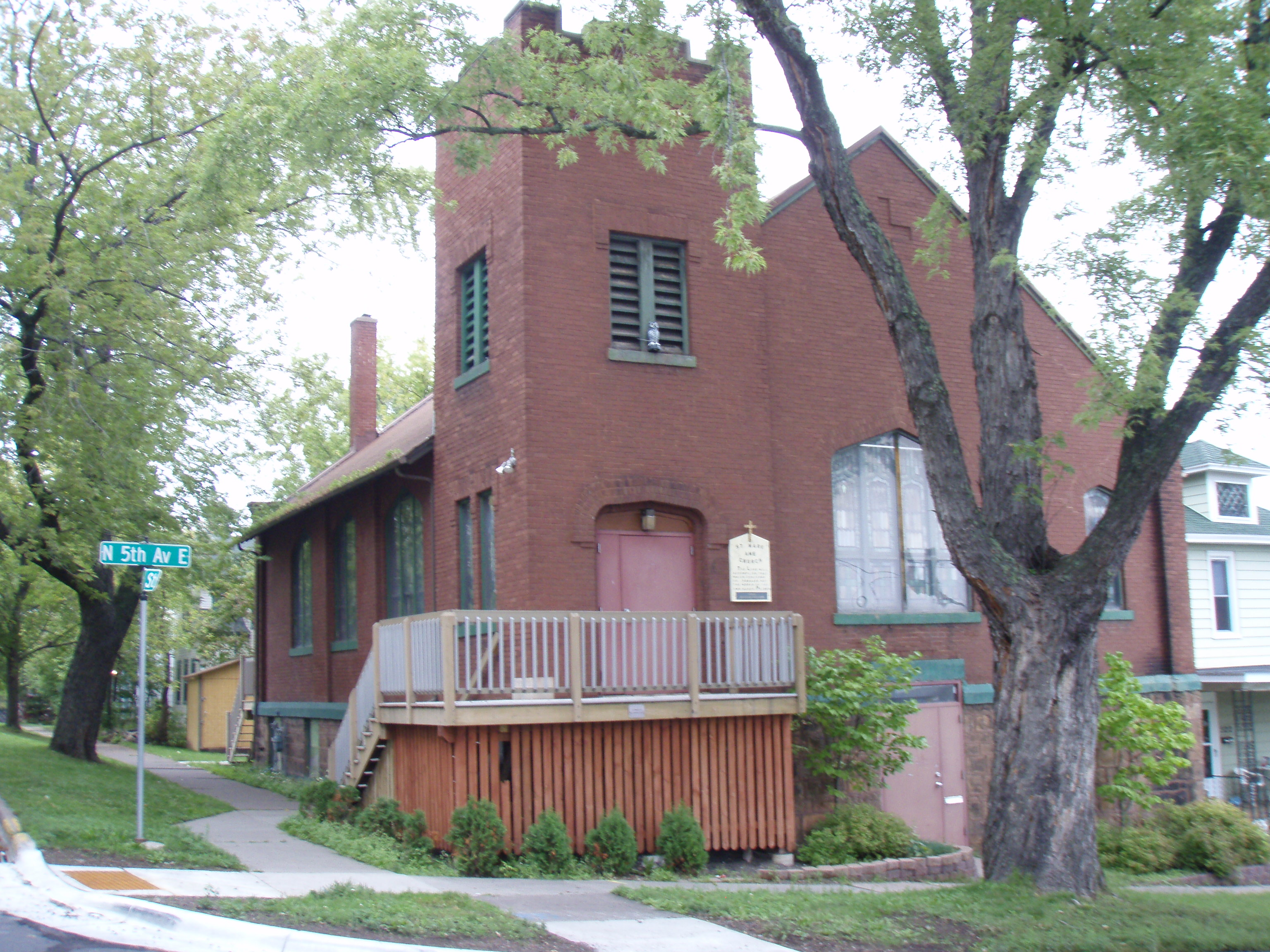 St. Mark's African Methodist Episcopal Church in Duluth, Minnesota, listed on the National Register of Historic Places.